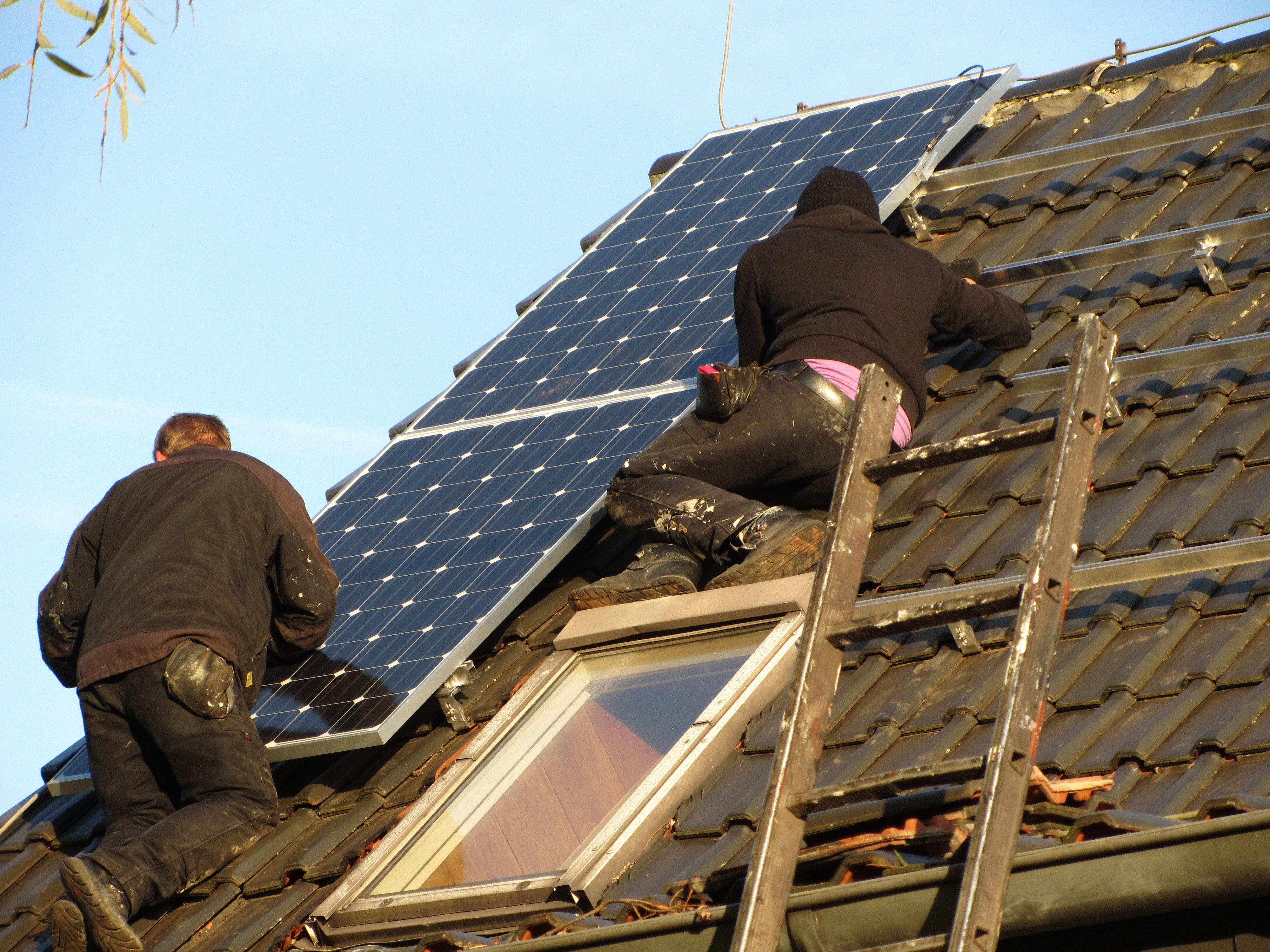 Installation of photovoltaic modules on roof in Selm, Germany